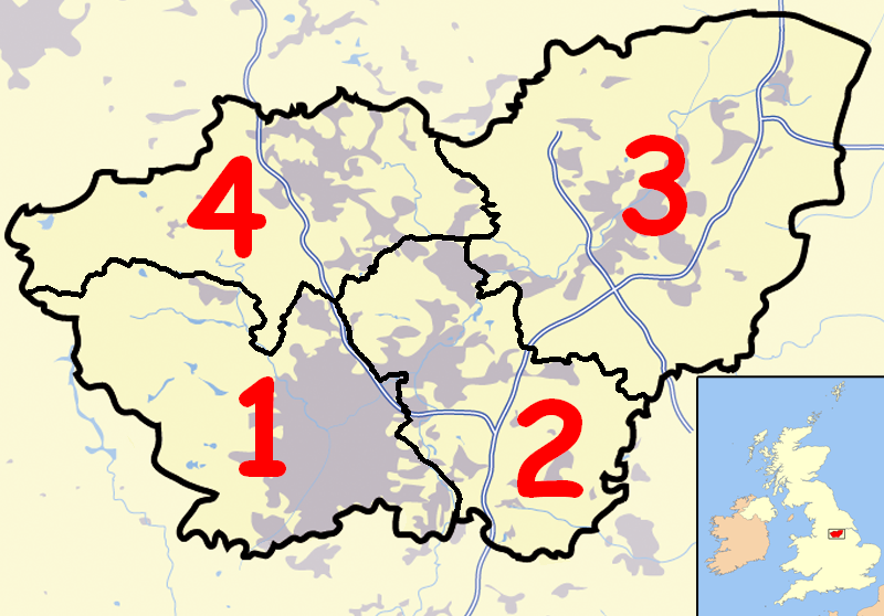 Outline of South Yorkshire